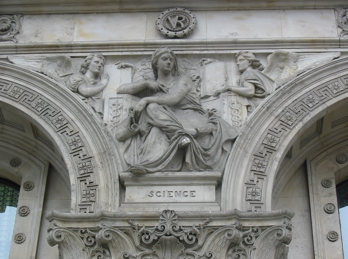 London